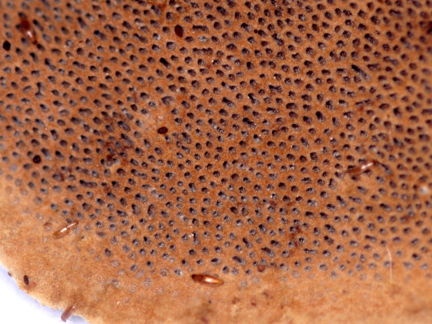 This is the smallest known beetle in the Old World, only 0.45 mm long and very hard to photograph. It was first discovered in 1989 and described in 1997. It lives its entire life inside the pores of the fungus Phellinus conchatus which grows on the tree Salix caprea.